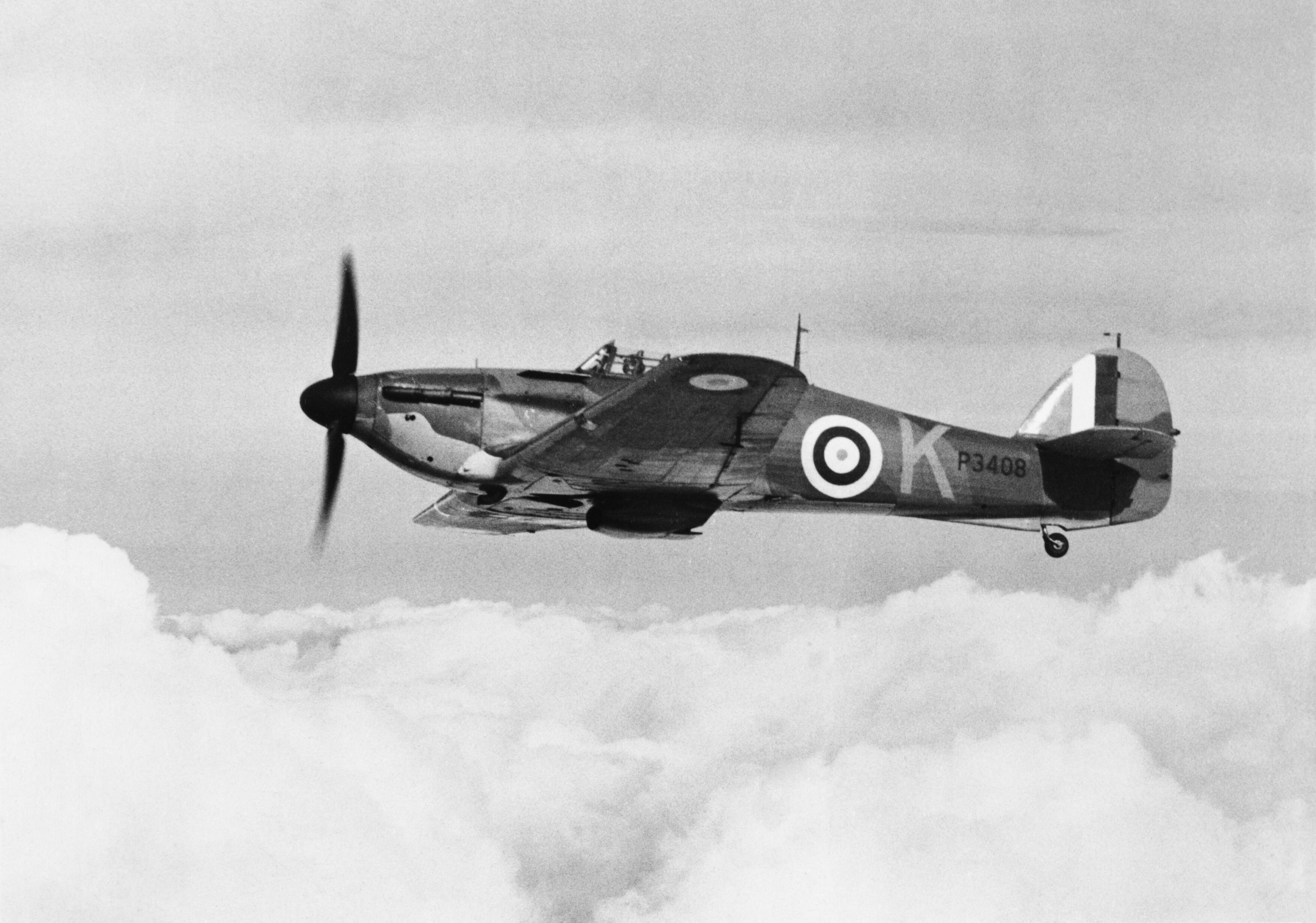 Hawker Hurricane Mk I of No. 85 Squadron RAF, October 1940. Hurricane Mark I, P3408 ‘VY-K’, of No. 85 Squadron RAF based at Church Fenton, Yorkshire, in flight.